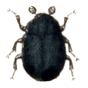 Orphilus niger, from Calwer's Käferbuch, Table 16, Picture 14. Taxonomy was updated to 2008, using mostly the sites Fauna Europaea and BioLib. Please contact Sarefo if the determination is wrong!